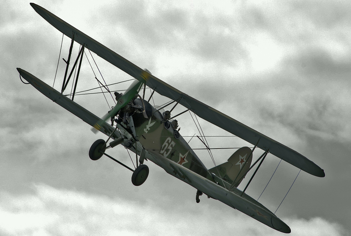 Flight.PO-2 RA-0790G